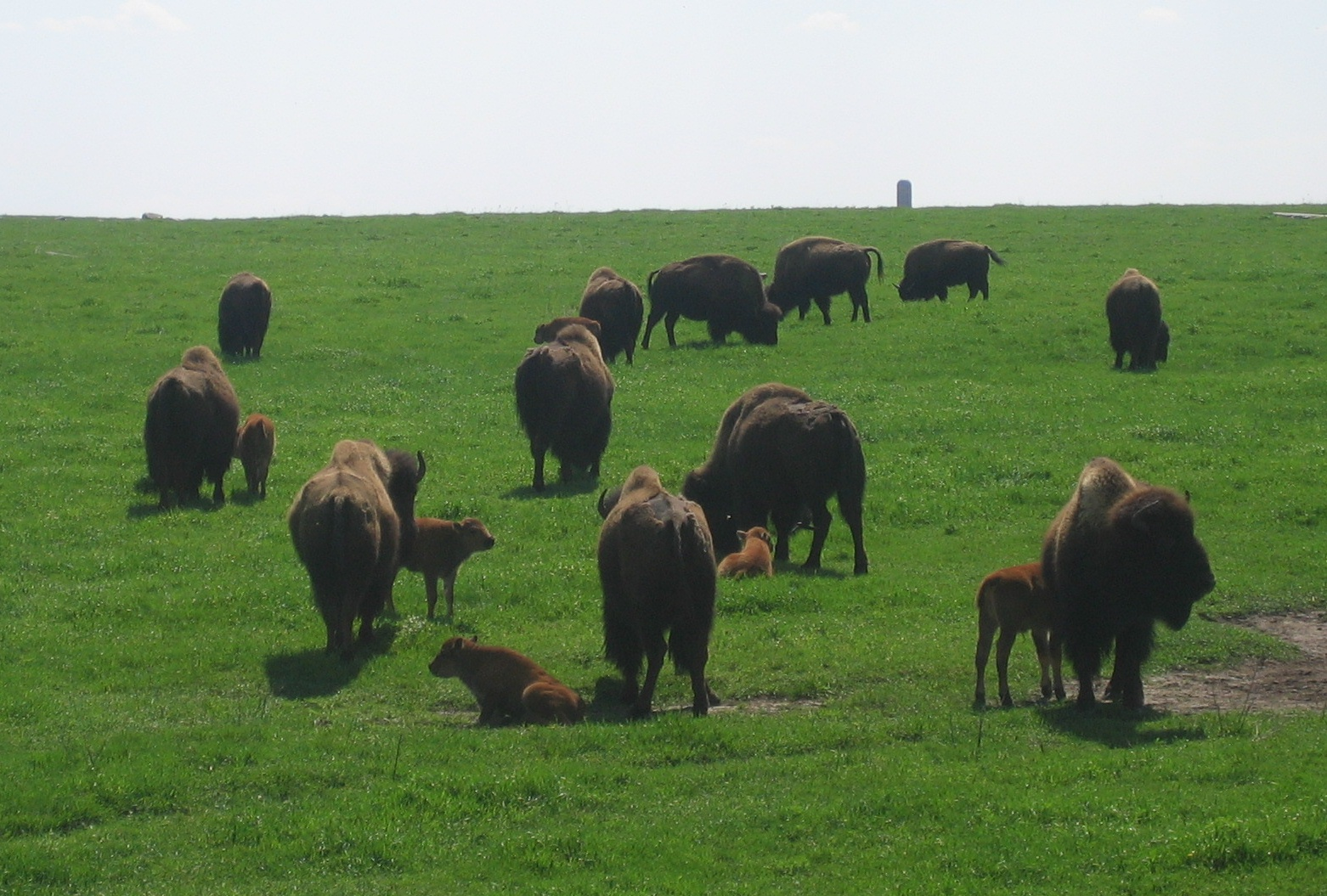 Photograph of some of the bison herd at Blue Mounds State Park, Minnesota